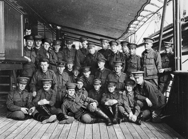 THE FIRST 29 REINFORCEMENTS TO NO 1 SQUADRON AUSTRALIAN FLYING CORPS (AFC), ON P&O SHIP MALWA, WHEN SAILING FROM MELBOURNE. THE THREE PHOTOGRAPHERS ARE IN THE FRONT ROW, O. H. COULSON SITTING ON LEFT, WITH CAMERA, F. C. WRIGHT RECLINING IN FRONT, H. V. LECKIE KNEELING ON RIGHT.